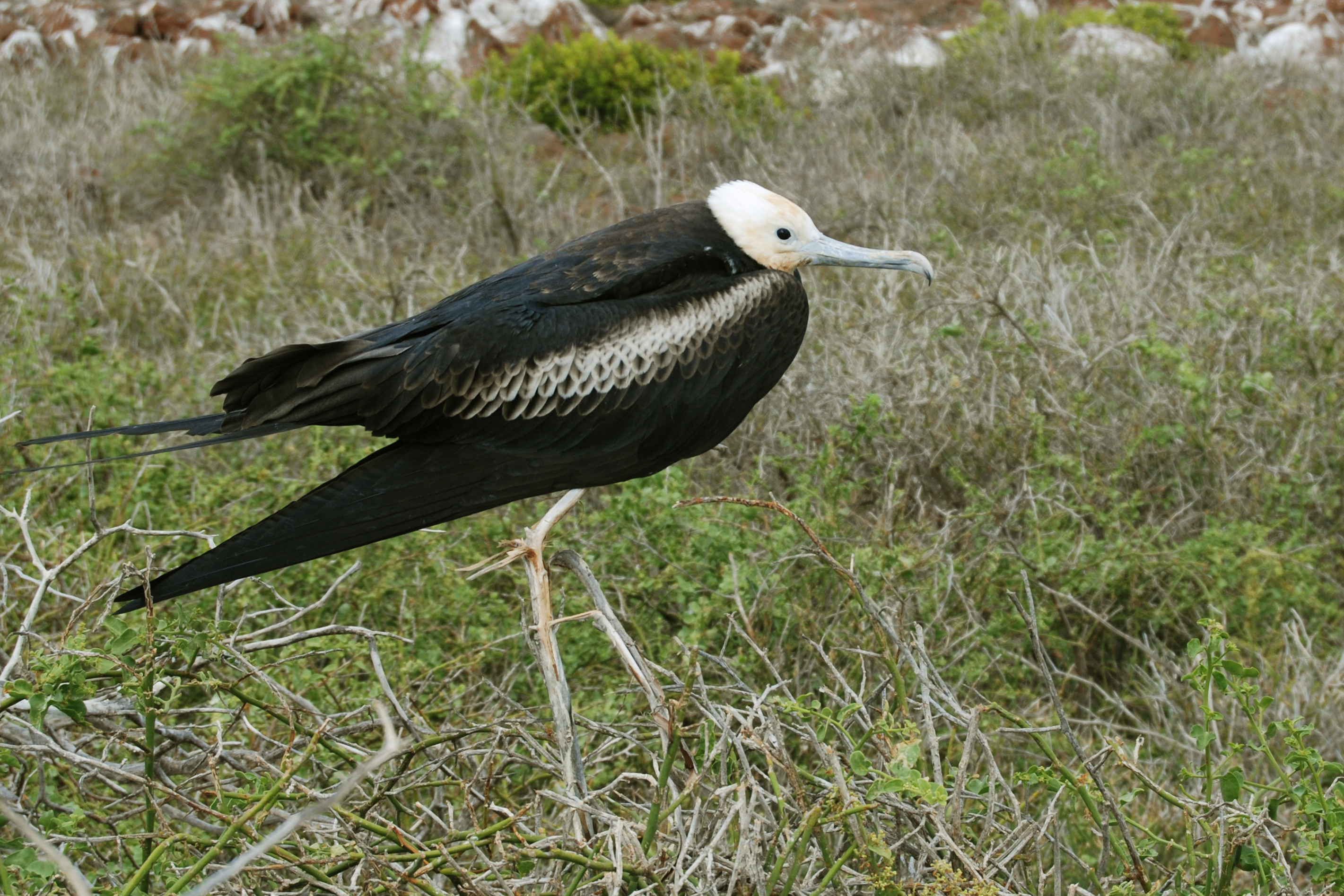 Juvenile Magnificent Frigatebird (Fregata magnificens) North Seymour Island, Galapagos Islands.